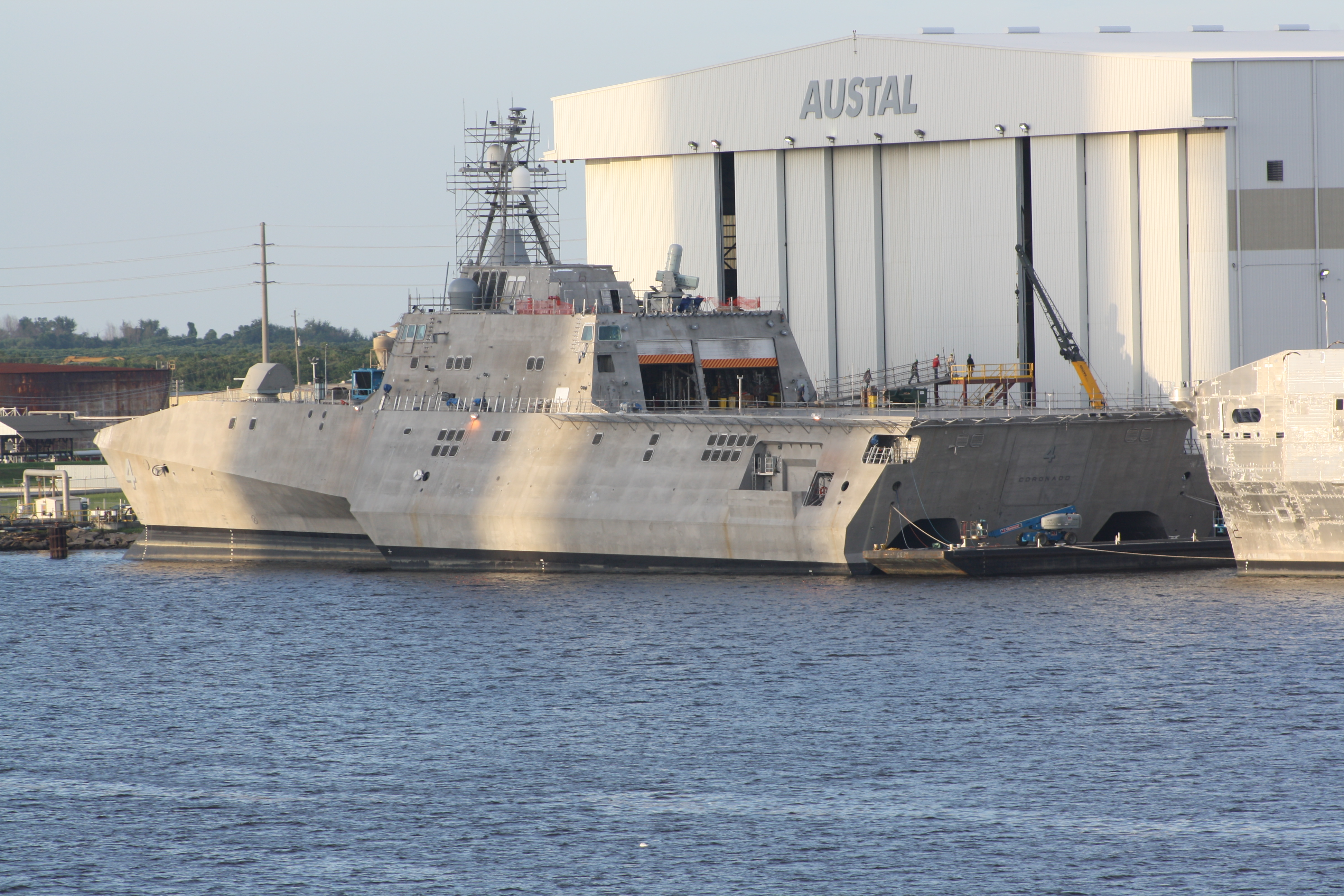 The USS Coronado (LCS-4) in port at Mobile, AL undergoing final retrofitting.